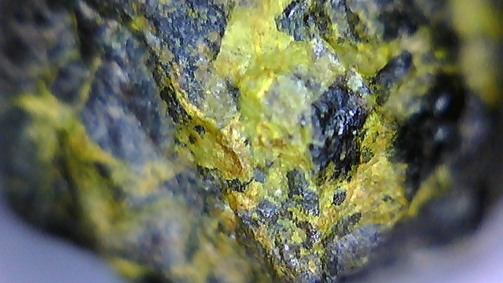 Thorogummite, Thorite (FOV 3 x 3 mm) Locality: Rangel Mine, Sierra de Rangel, La Poma Department, Salta, Argentina Original description: Yellow Thorogummite on Thorite altered.